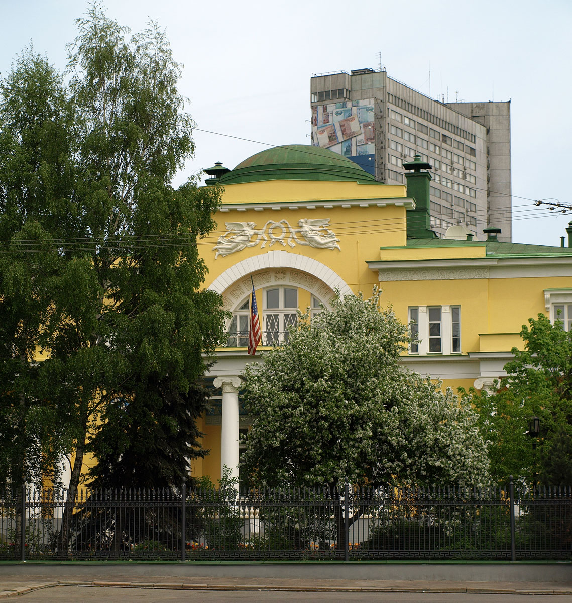 Nikolai Vtorov mansion (Spaso House), Moscow. 1913-1915. Residence of United States ambassador in Moscow.